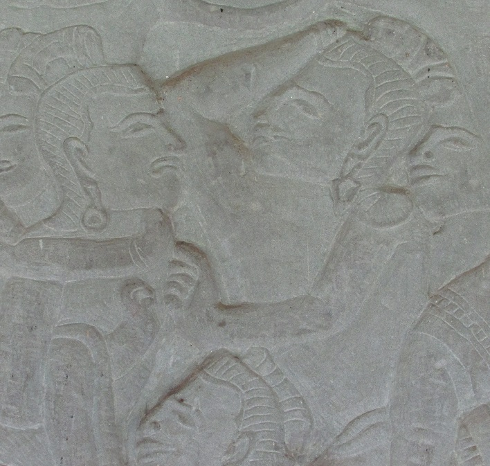 ancient khmer bas-relief of elbow strike.